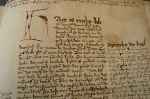 The Codex Roorda is a medieval document with Latin and Old-Frisian law texts.